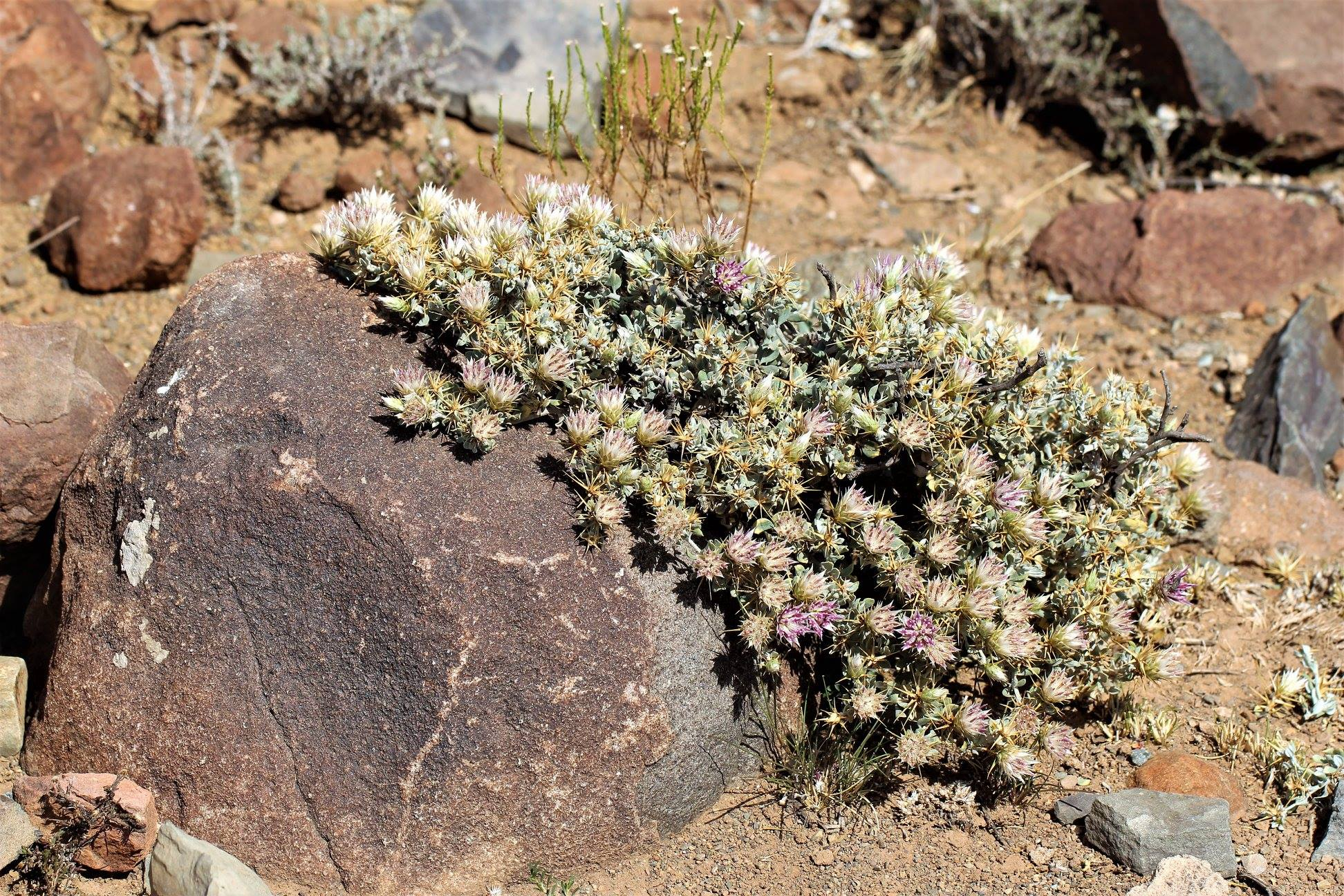 Macledium spinosum (L.) S.Ortiz - Karoo National Park near Beaufort West, South Africa